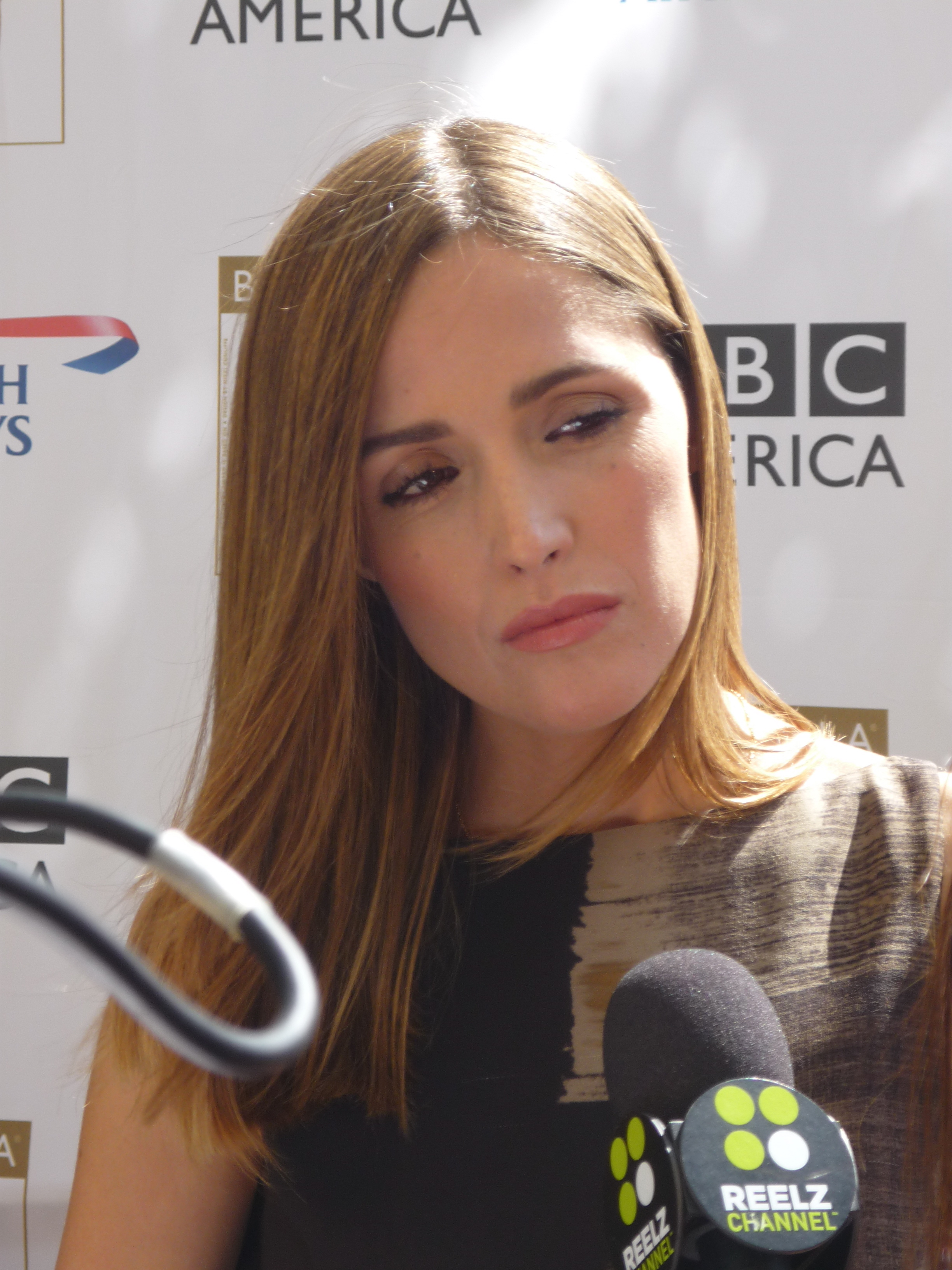 Actress Rose Byrne at 2010 BAFTA/LA Awards.